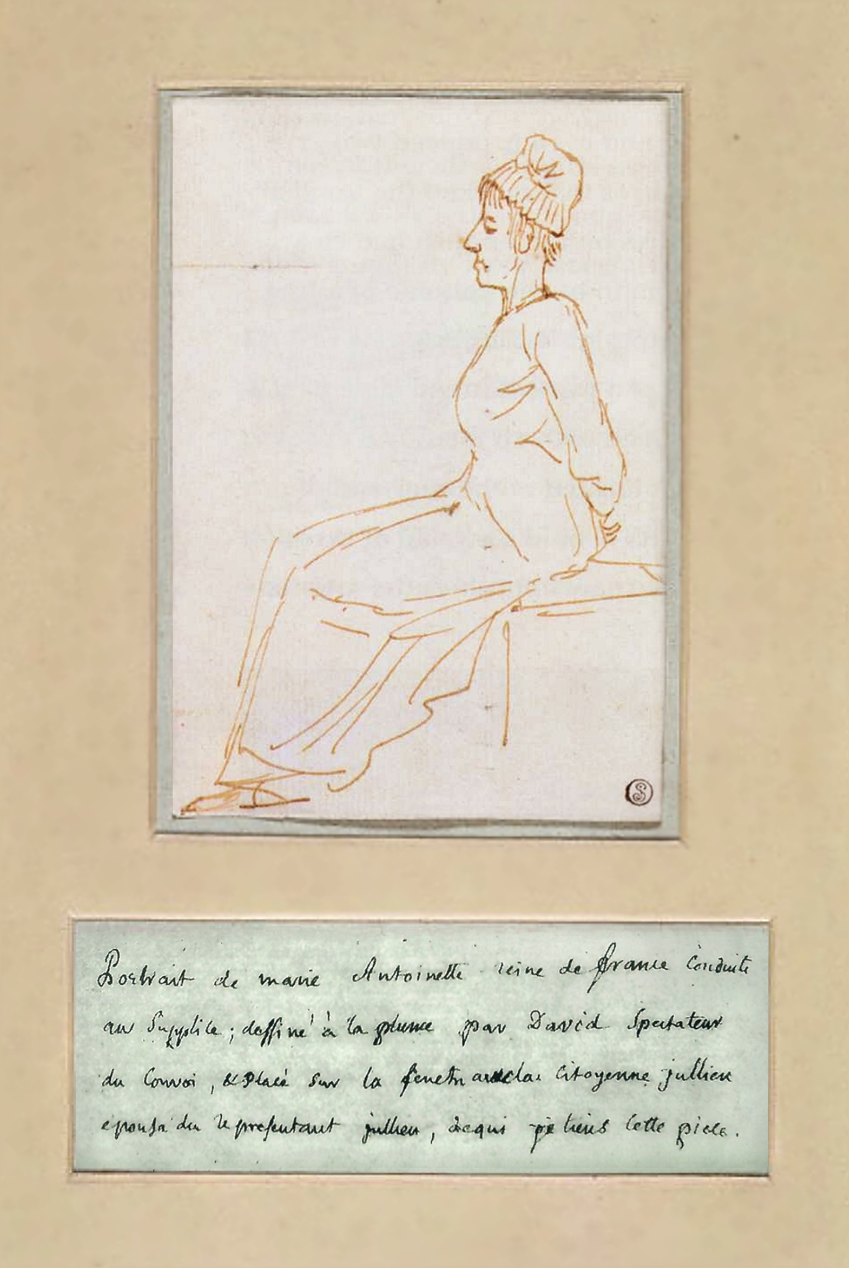 Marie Antoinette 1793 on her way to the guillotine, by Jacques-Louis David